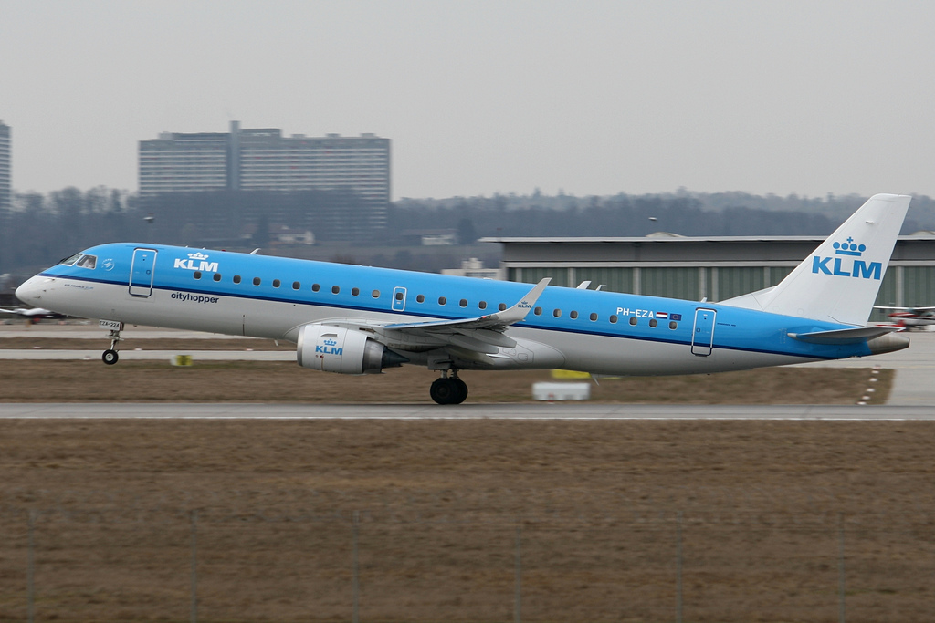 KLM cityhopper Embraer 190 PH-EZA